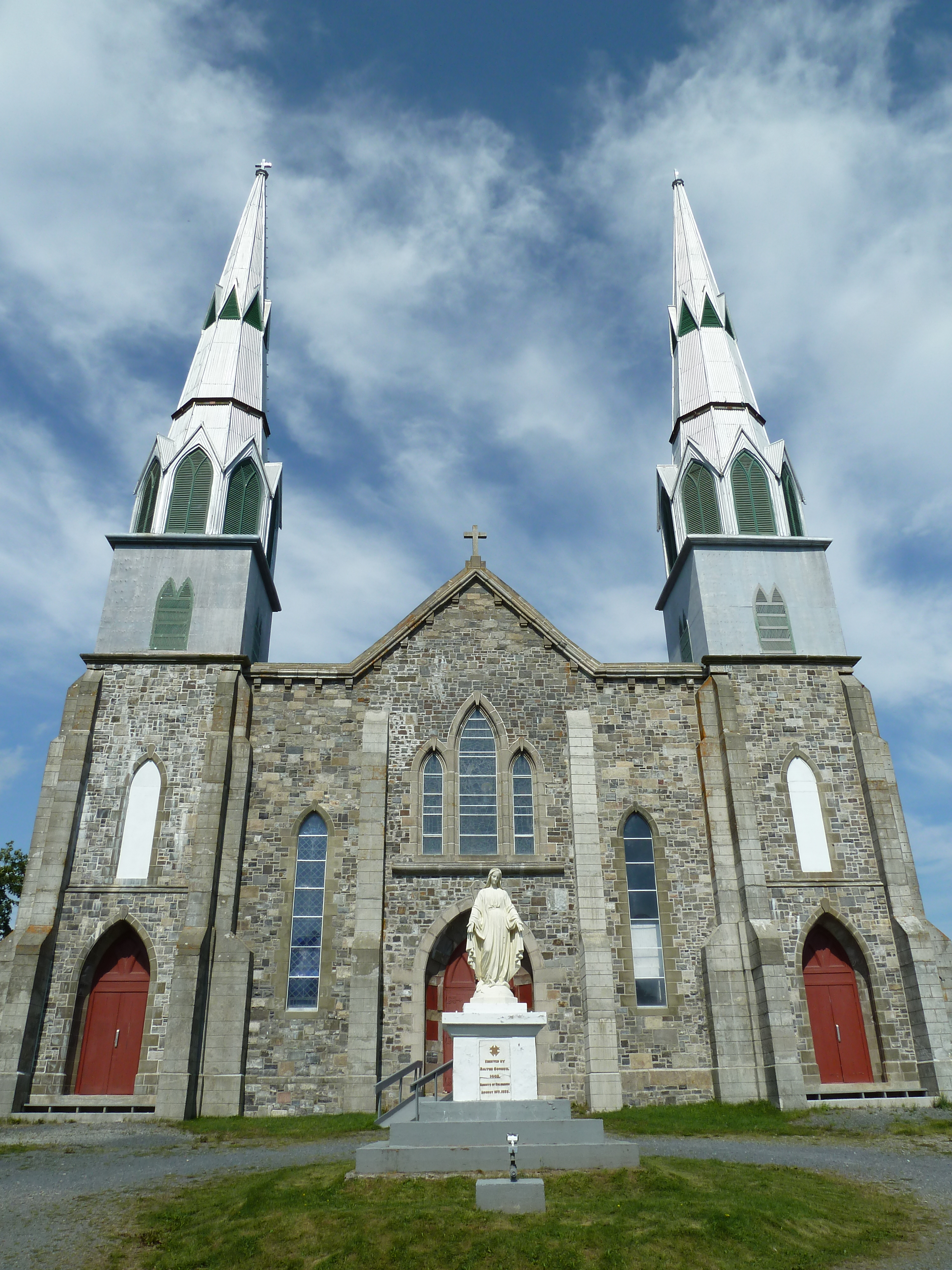 Cathedral of Immaculate Conception, Harbour Grace, Newfoundland and Labrador